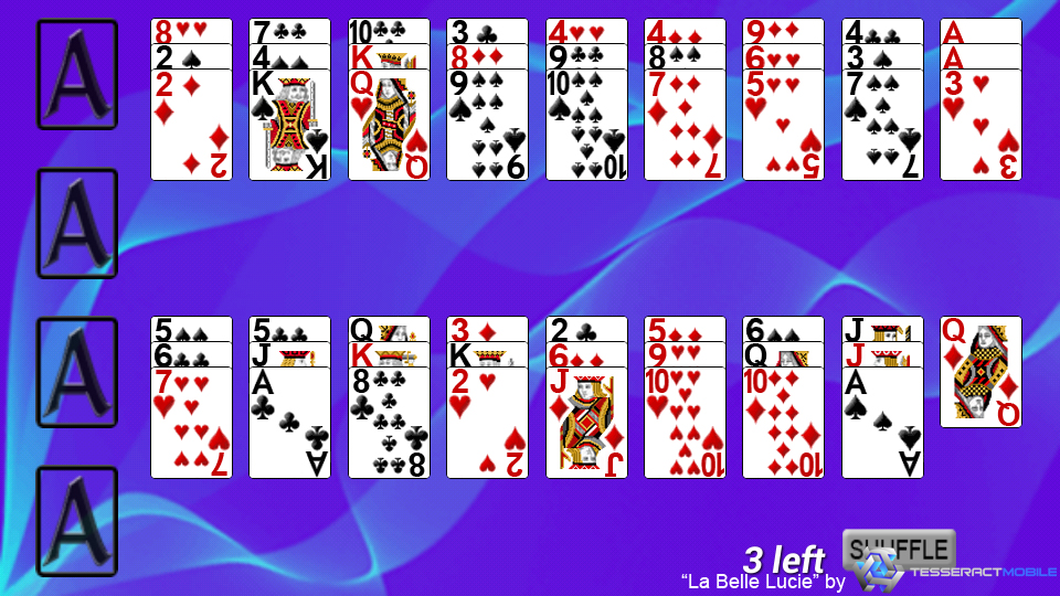 This image is a screenshot of the solitaire game "La Belle Lucie". More information about this game or this photo can be found on this website